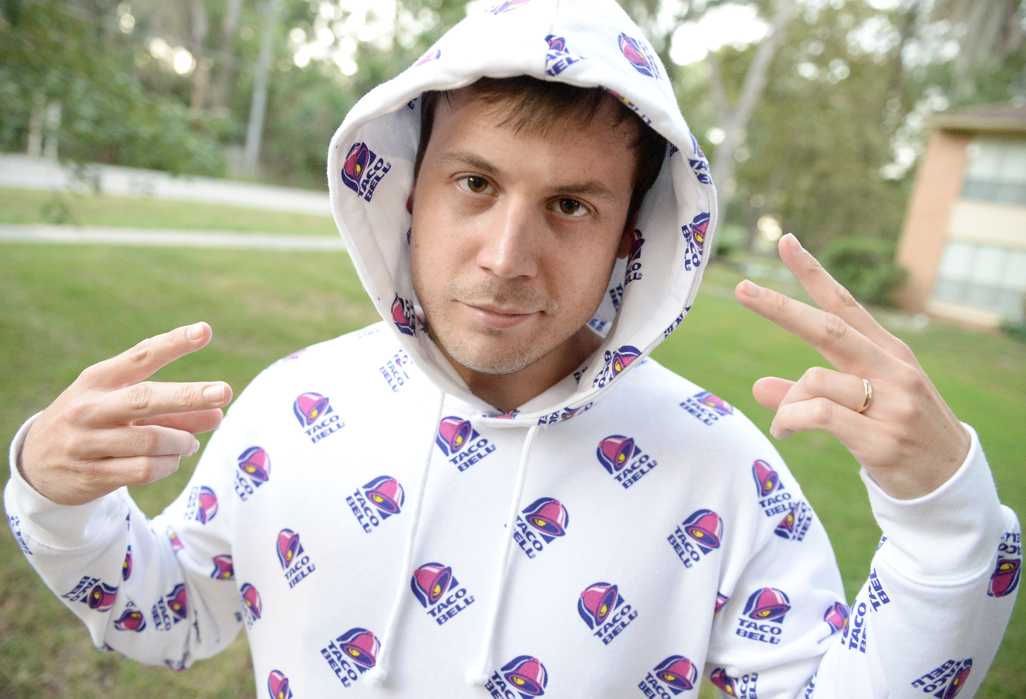 Man wearing a white Taco Bell hooded sweatshirt, part of the 2017 Forever 21 Taco Bell collection. Photo attribution must go to Steven H. Keys and